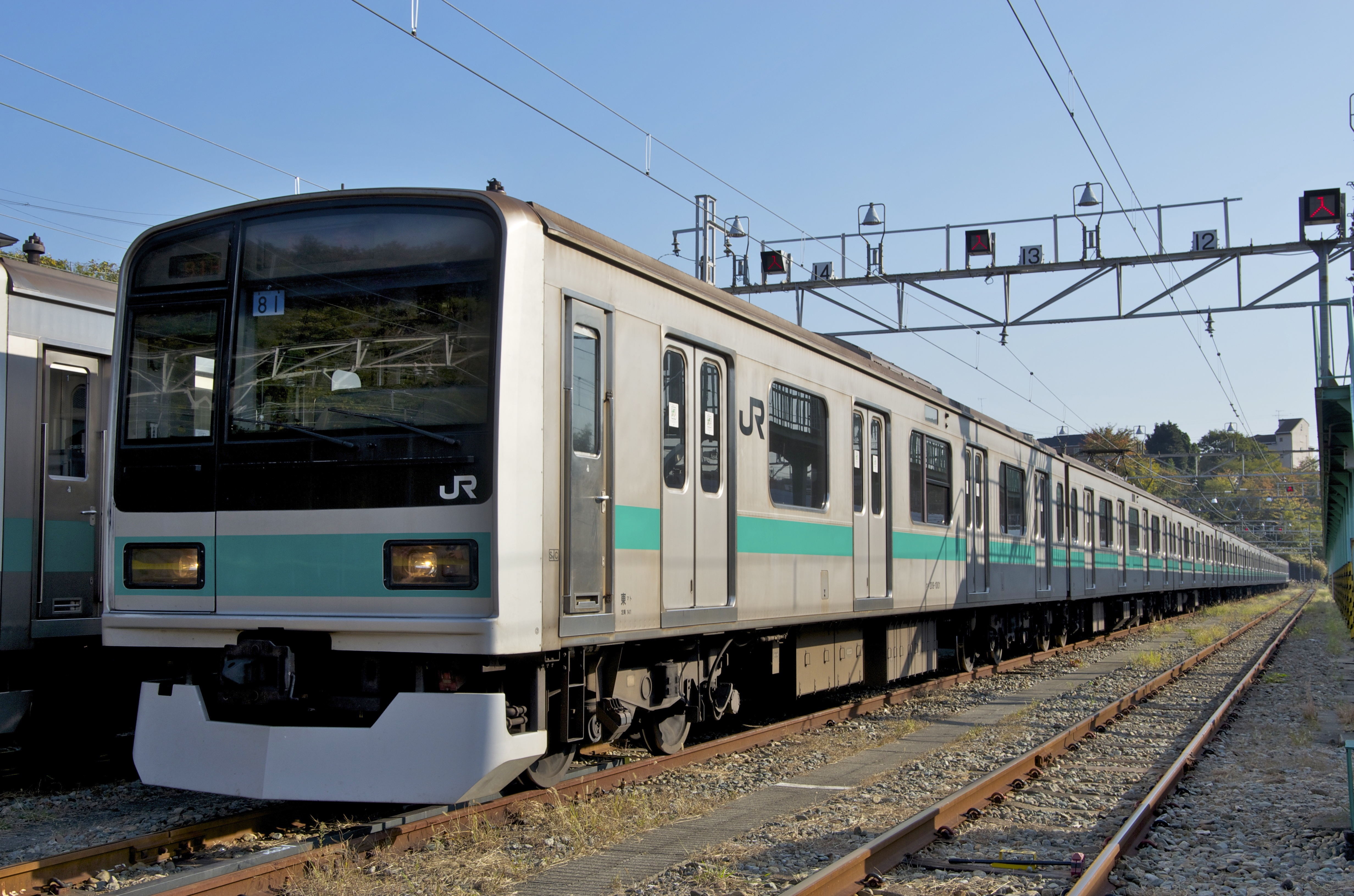 JR East 209-1000 series EMU set 81 at Matsudo Rolling Stock Center open day